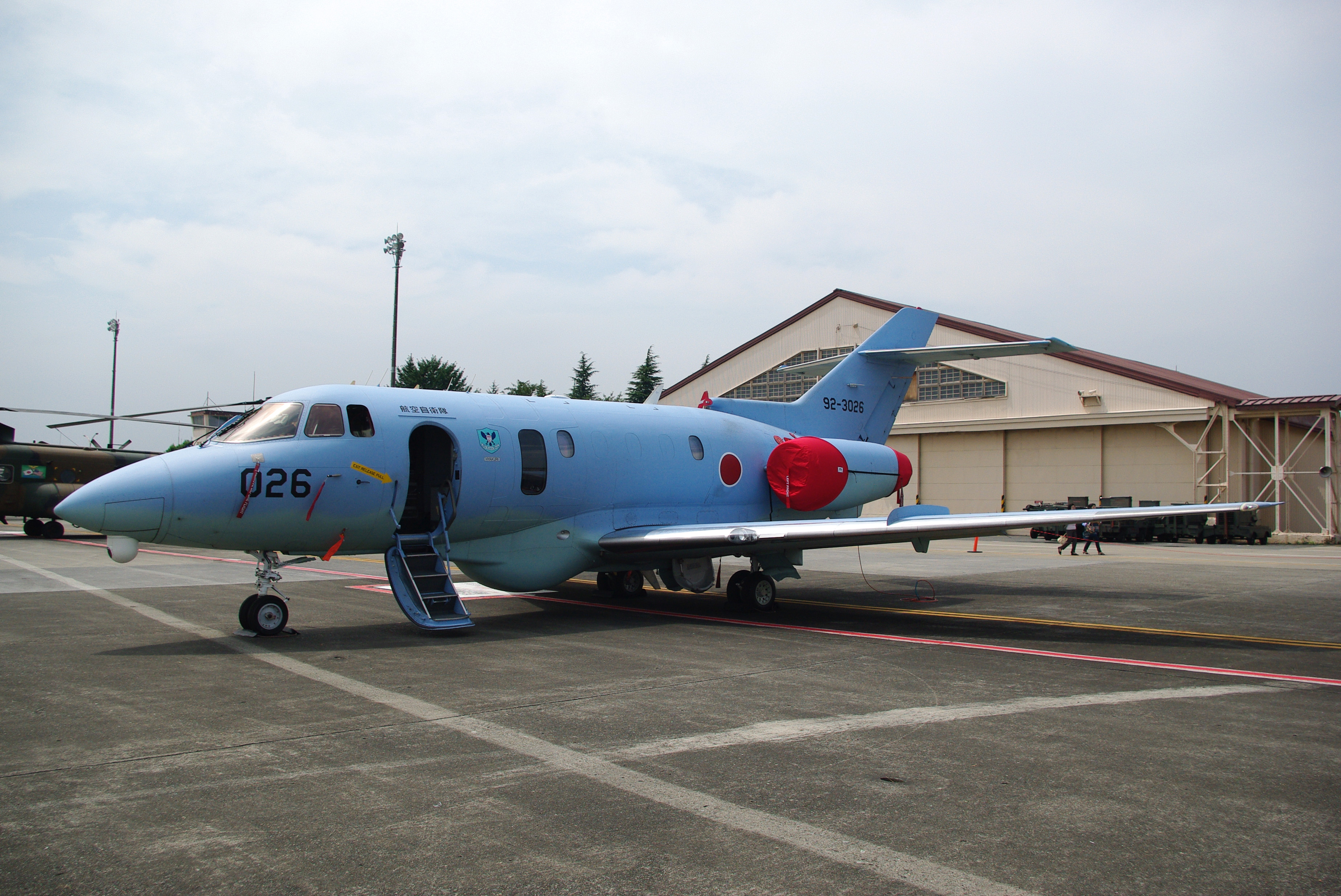 JASDF U-125A search and rescue aircraft.At USAF Yokota AFB,Japan.Taken by Los688,22-Aug-2009.PD-self. Ja:航空自衛隊U-125A捜索救難機。機体番号92-3026 百里救難隊。2009年8月22日、横田基地にて撮影。